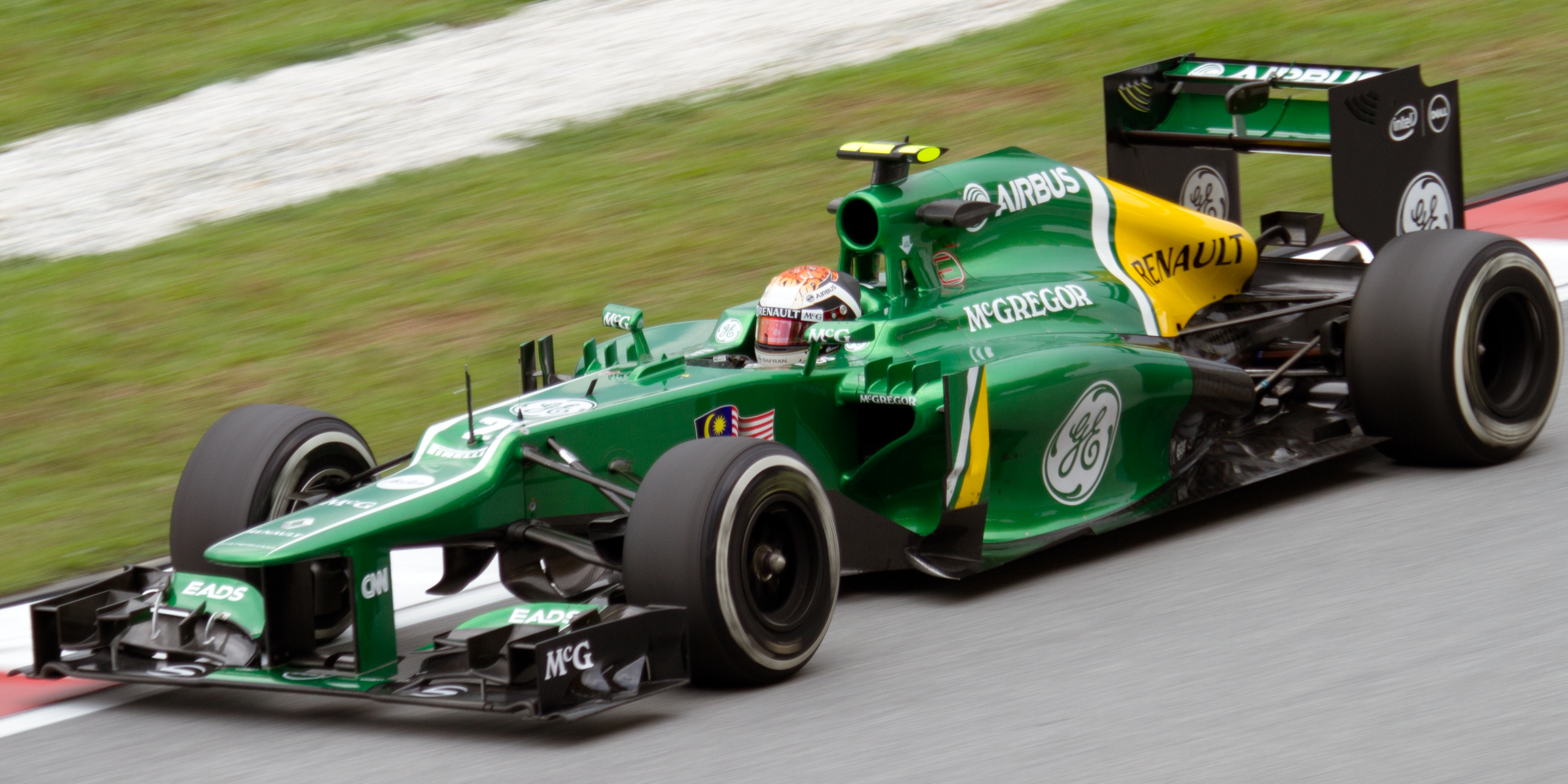 Formula One 2013 Rd.2 Malaysian GP: Giedo van der Garde (Caterham) during the second practice session on Friday.